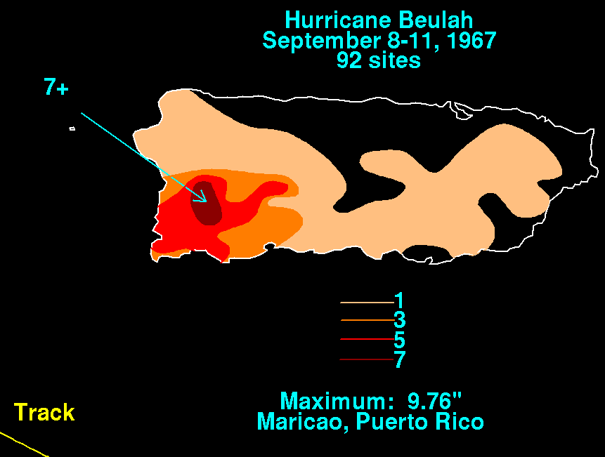 Storm total rainfall map of Hurricane Beulah in Puerto Rico during September 1967.